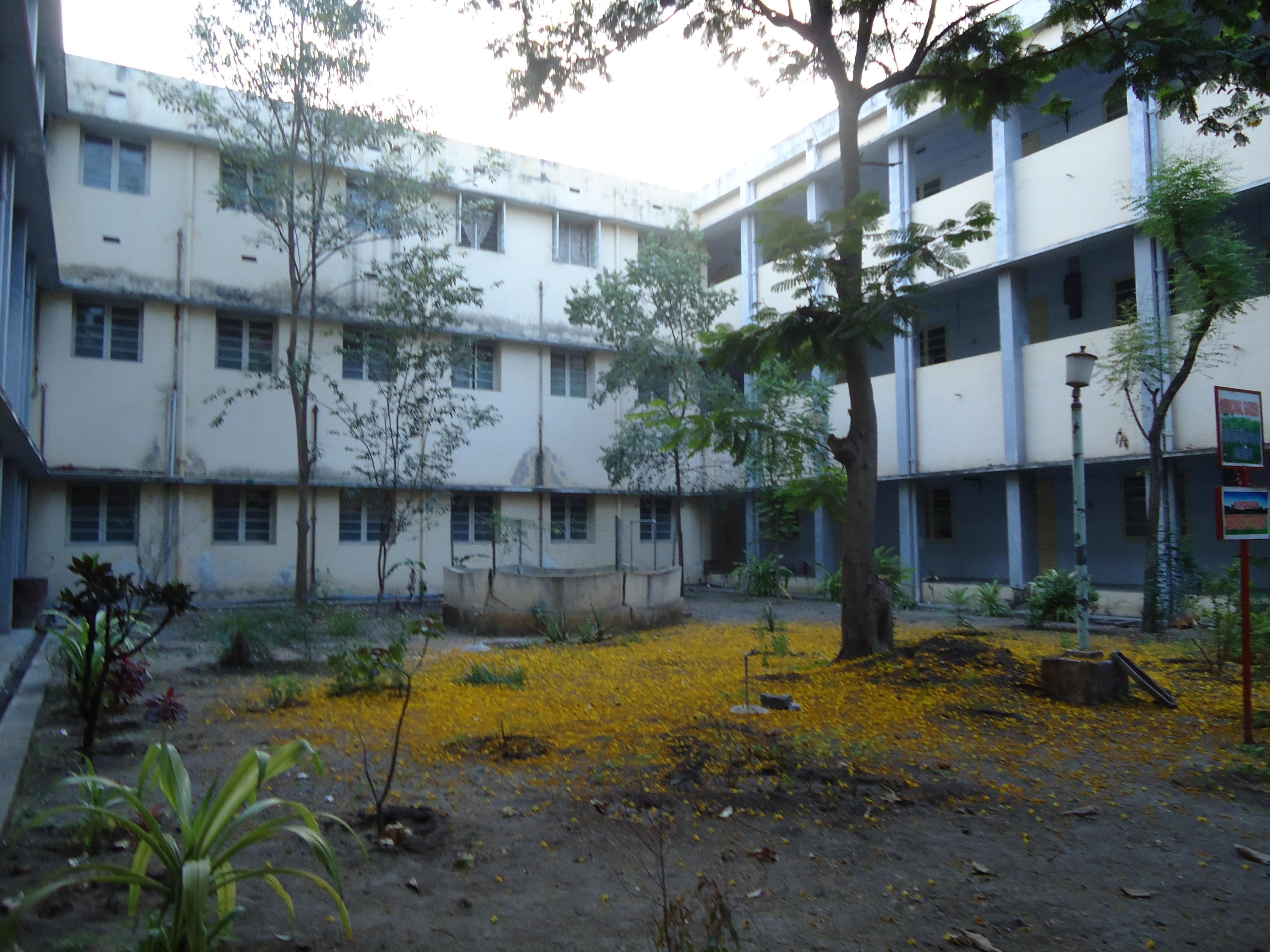 coimbatore medical college interior